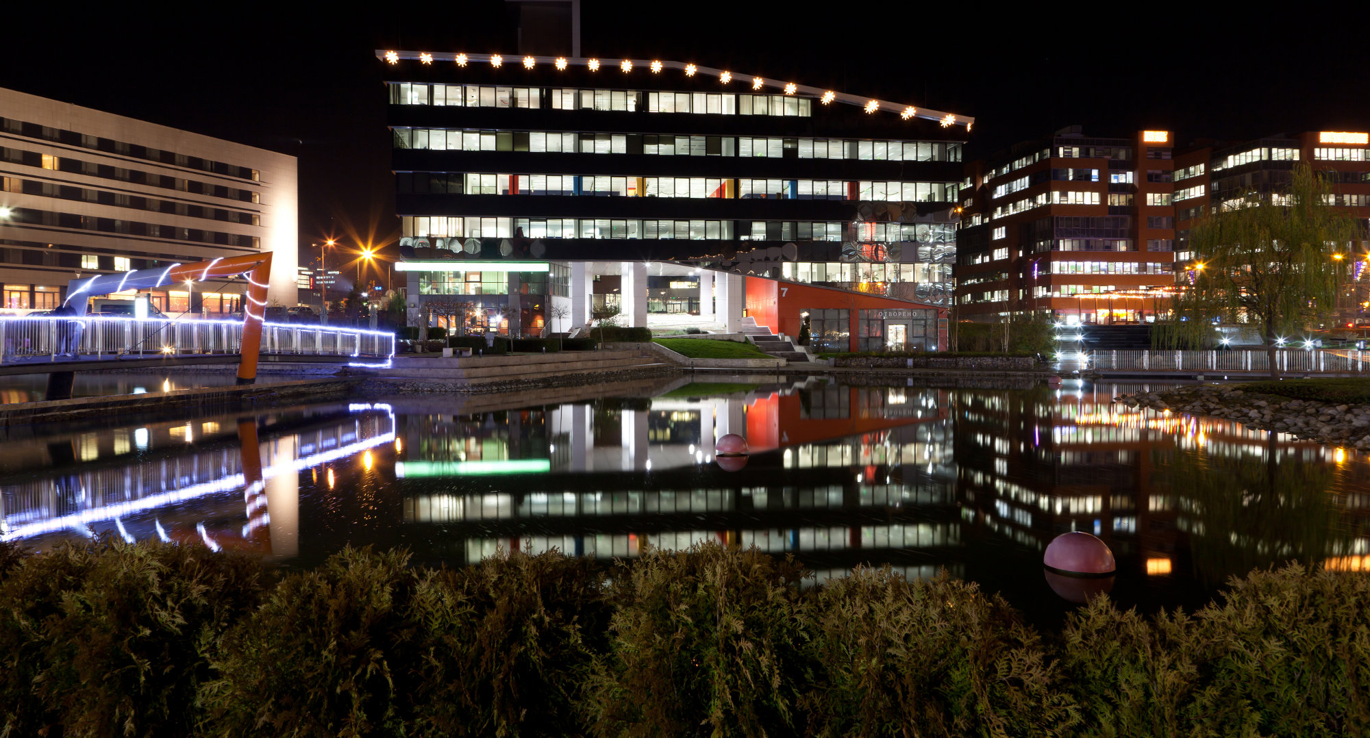 Бизнес Парк София